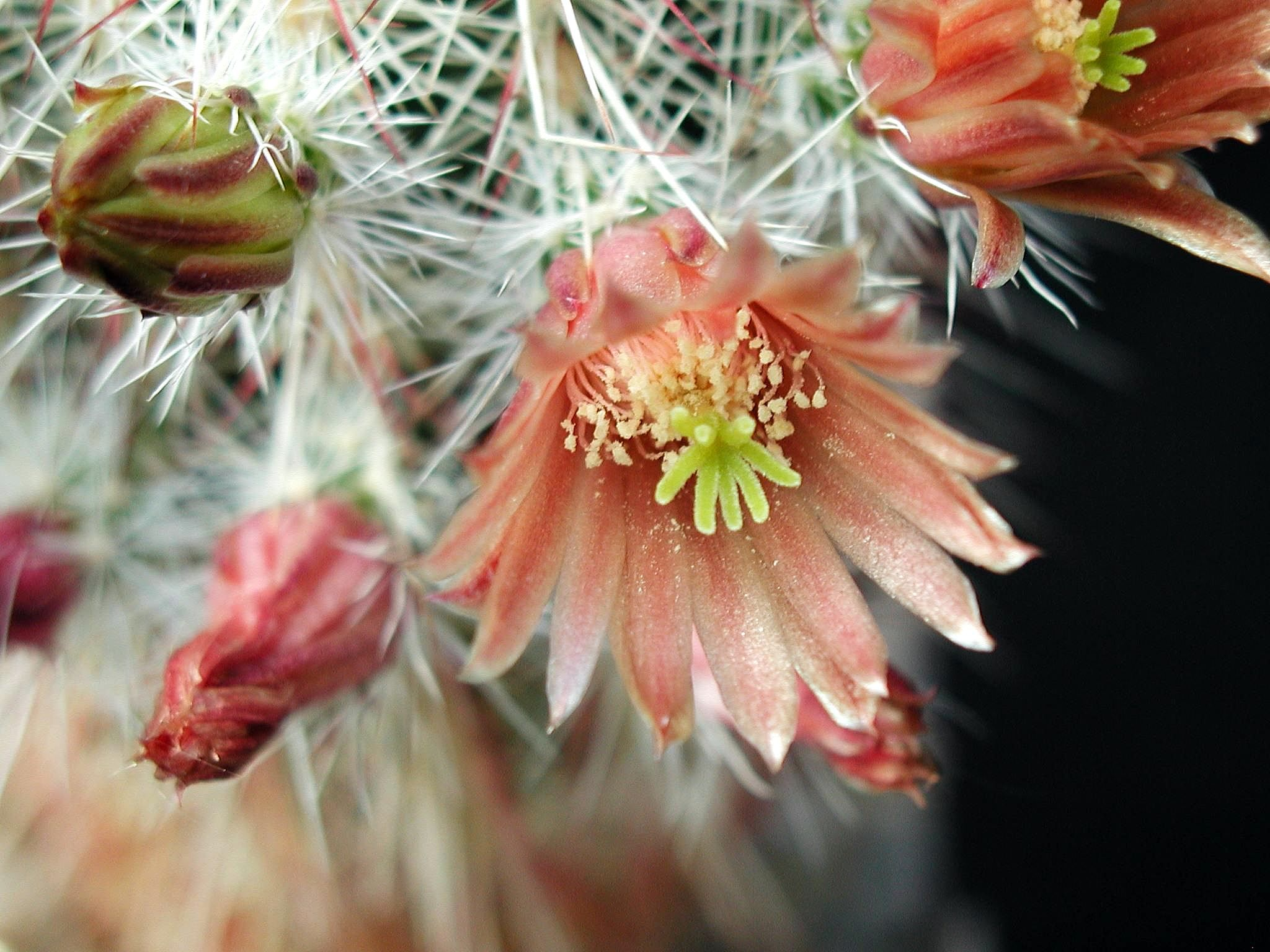 Image title: Cactaceae flower Image from Public domain images website